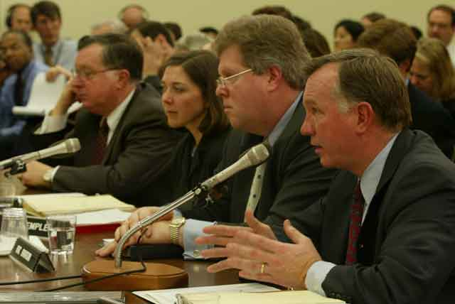 Arthur Andersen witnesses testify at the Subcommittee on Oversight and Investigations of the Committee on Energy and Commerce House of Representatives (107th Congress) hearing on January 24, 2002